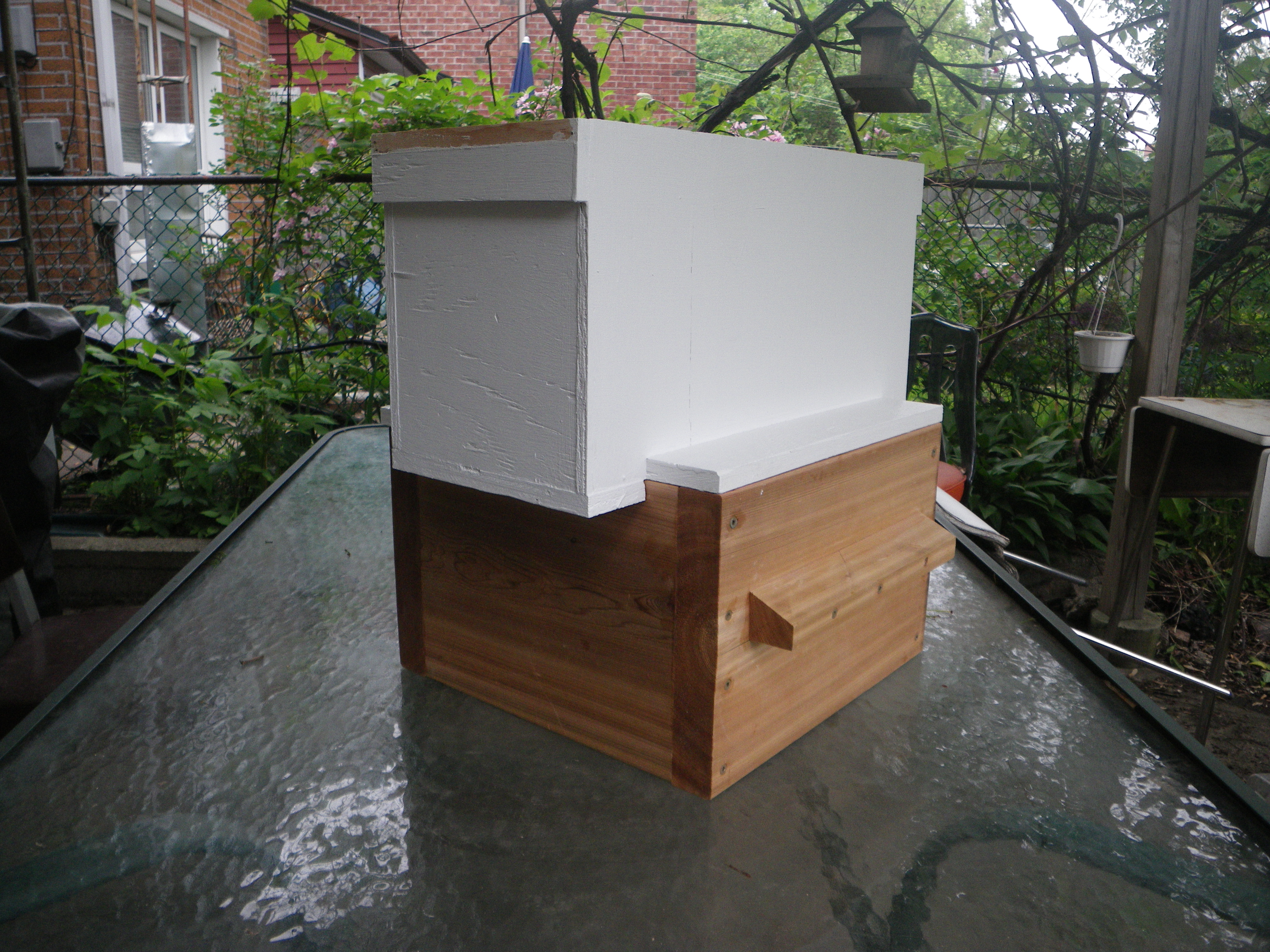 A standard 5-frame langstroth nuc set up to transition a honey bee colony into a warré hive. More on building this nuc box here.